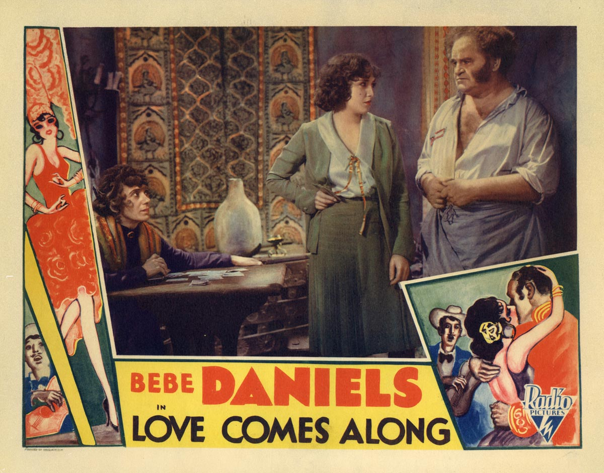 Lobby card for the American romance film Love Comes Along (1930).